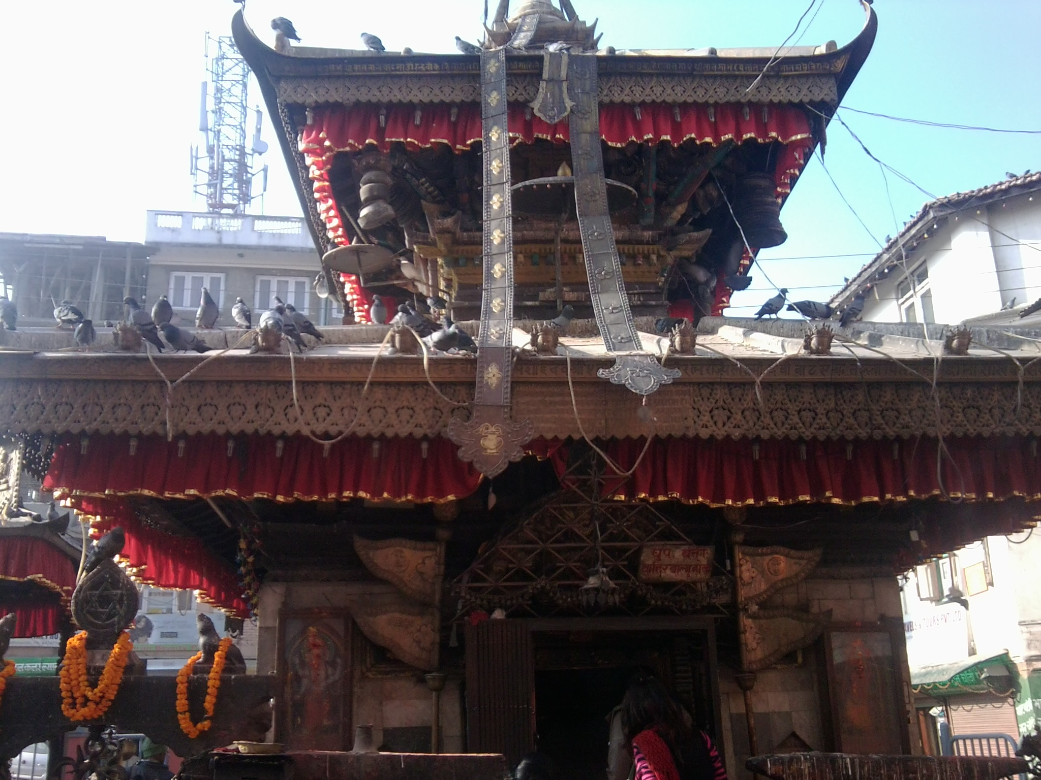 Bhatbhateni temple in Kathmandu.